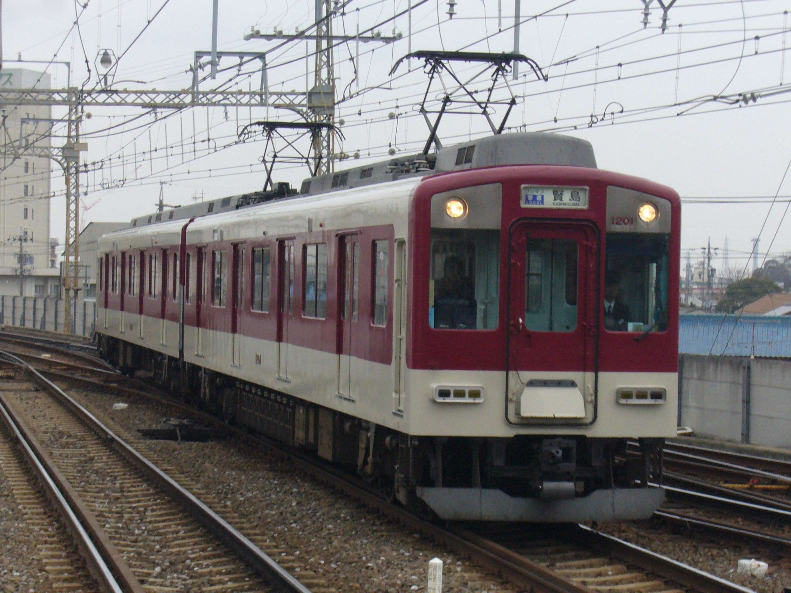 This is a picture of 1201 formation,Kintetsu 1201 series.I took this picture at Uziyamada station.